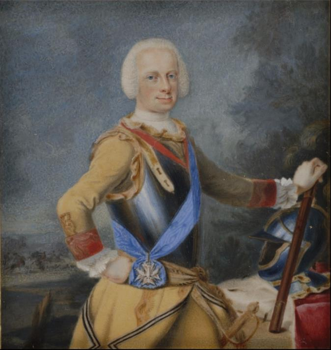 Louis VIII, Landgrave of Hesse- Darmstadt